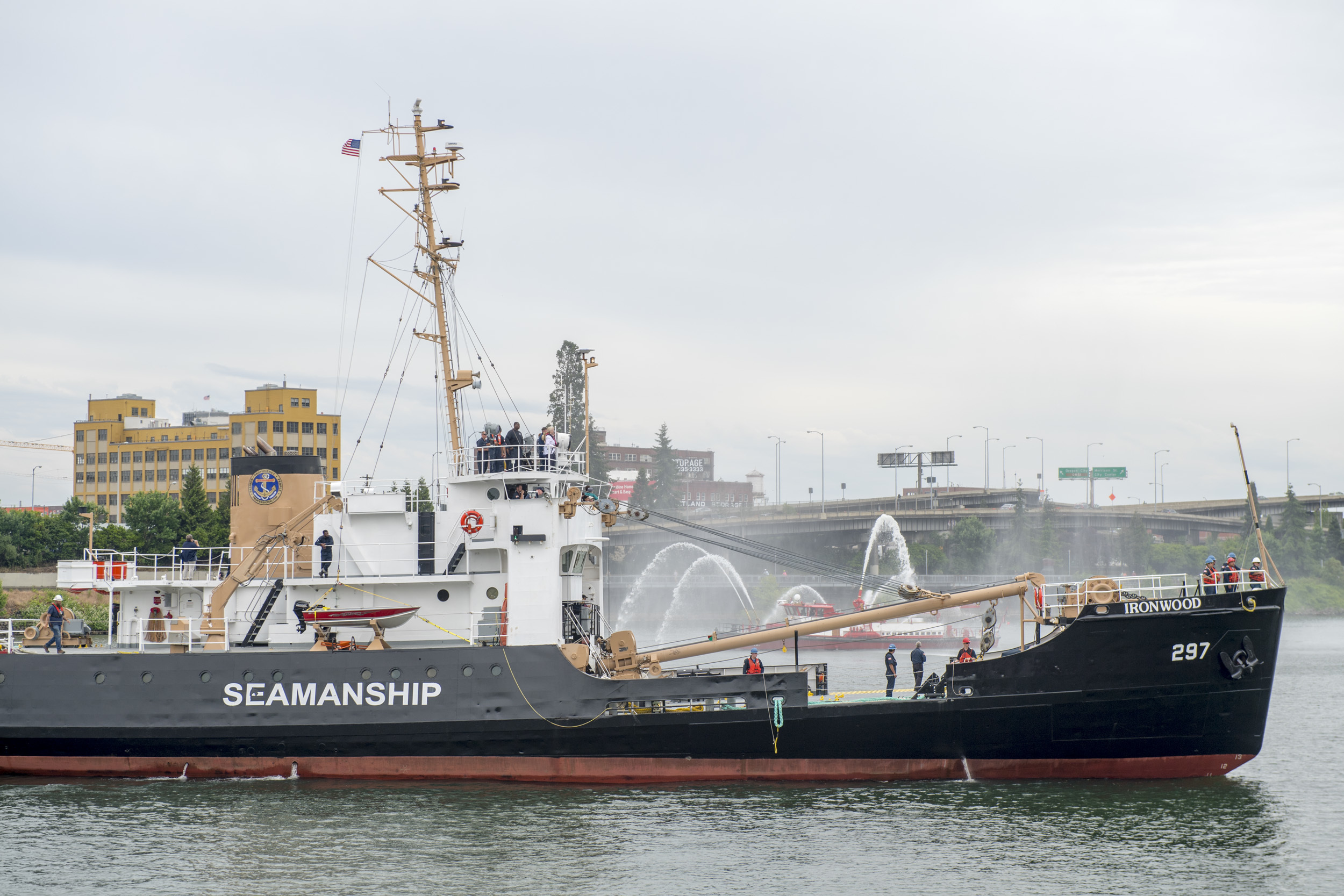 Training ship Ironwood at Fleet Week celebration in Portland, OR. Now part of the Job Corp Seamanship Academy, sh was formerly the USCGC Ironwood.